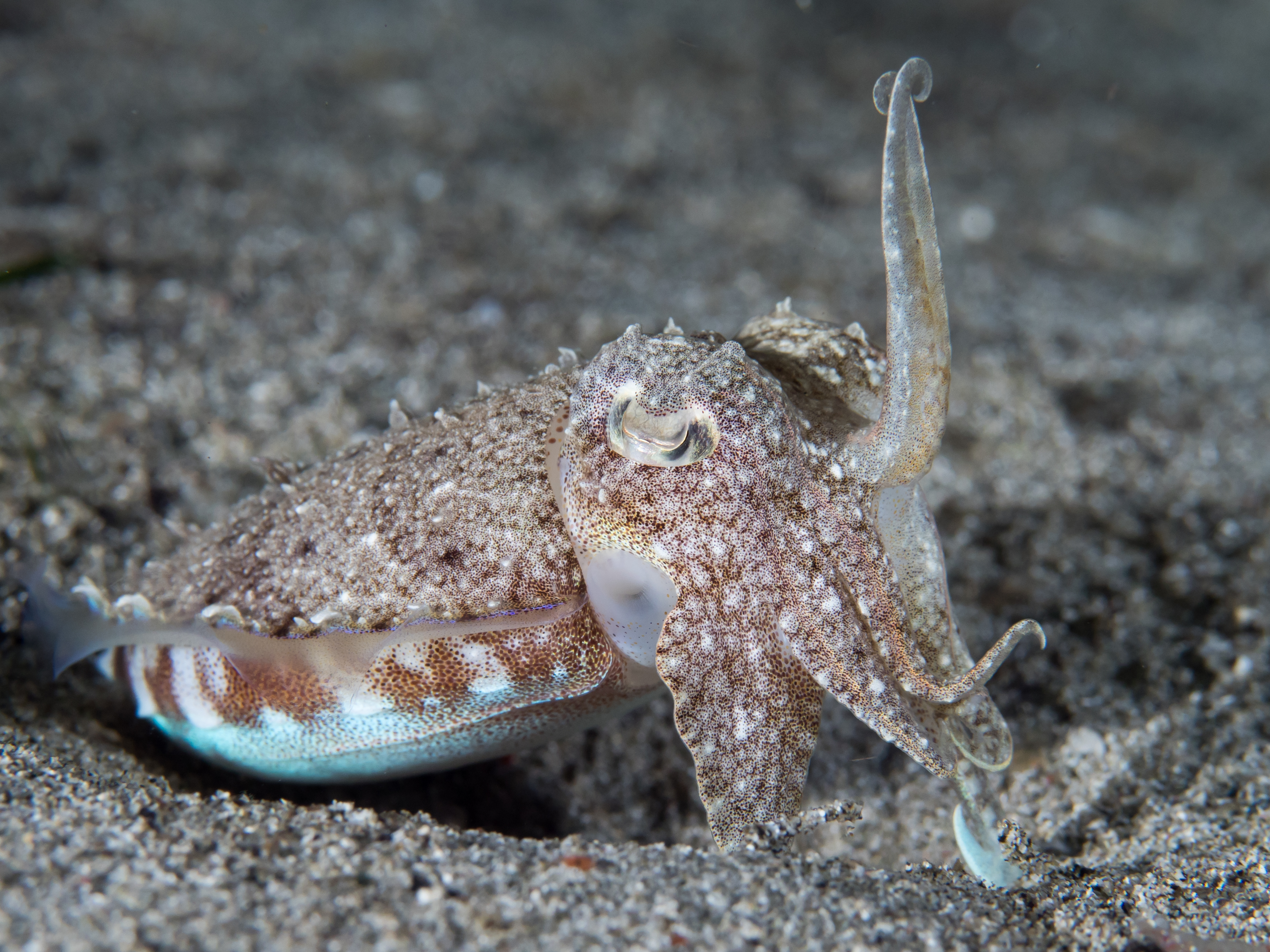 Smith's Cuttlefish (Sepia smithi) - Morotai, Indonesia